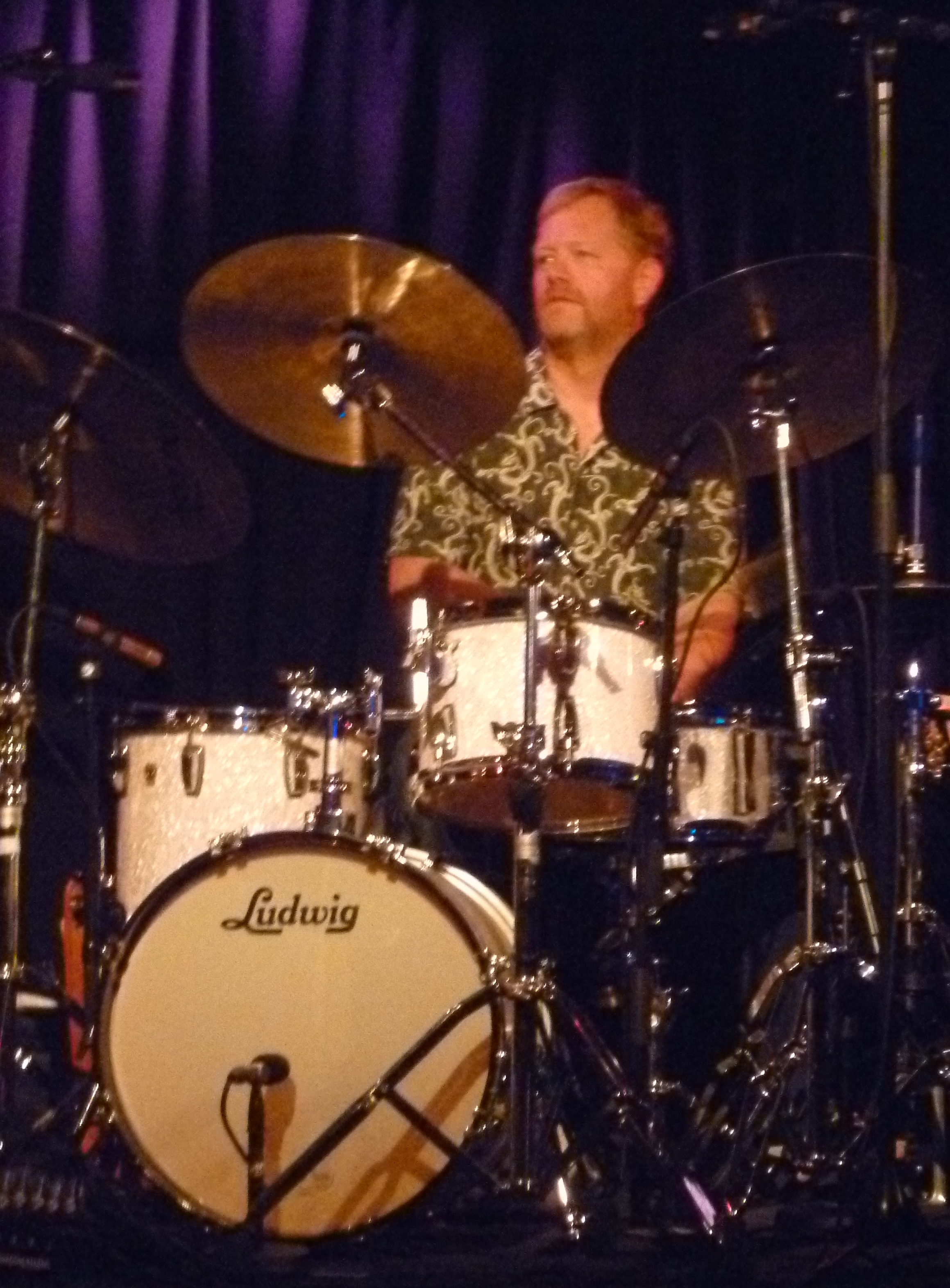 Per Oddvar Johansen in Bergen, Norway, with Adam Bałdych and Helge Lien Trio at Sardinen, USF Verftet, Nattjazz 2016.